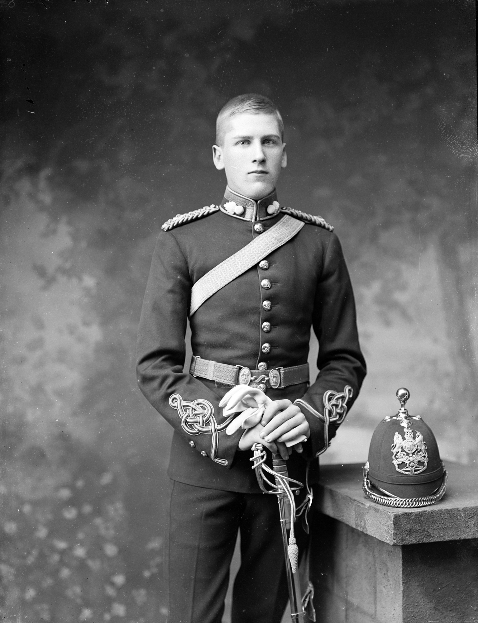 This Poole Studio portrait is of an E.F. Frazer. Almost certainly taken in Waterford, and we believed the young man may have had something to do with Roscommon. We'd said we'd love to know more about him, and now we do... Read the comments below for more about Edward, his military career and family. With regards to the family, we now know that he was uncle of Maureen O'Sullivan (most famous for playing Jane opposite Johnny Weissmuller in all those black and white Tarzan films), and therefore he was Mia Farrow's great uncle! NLI Ref.: P_WP_1329